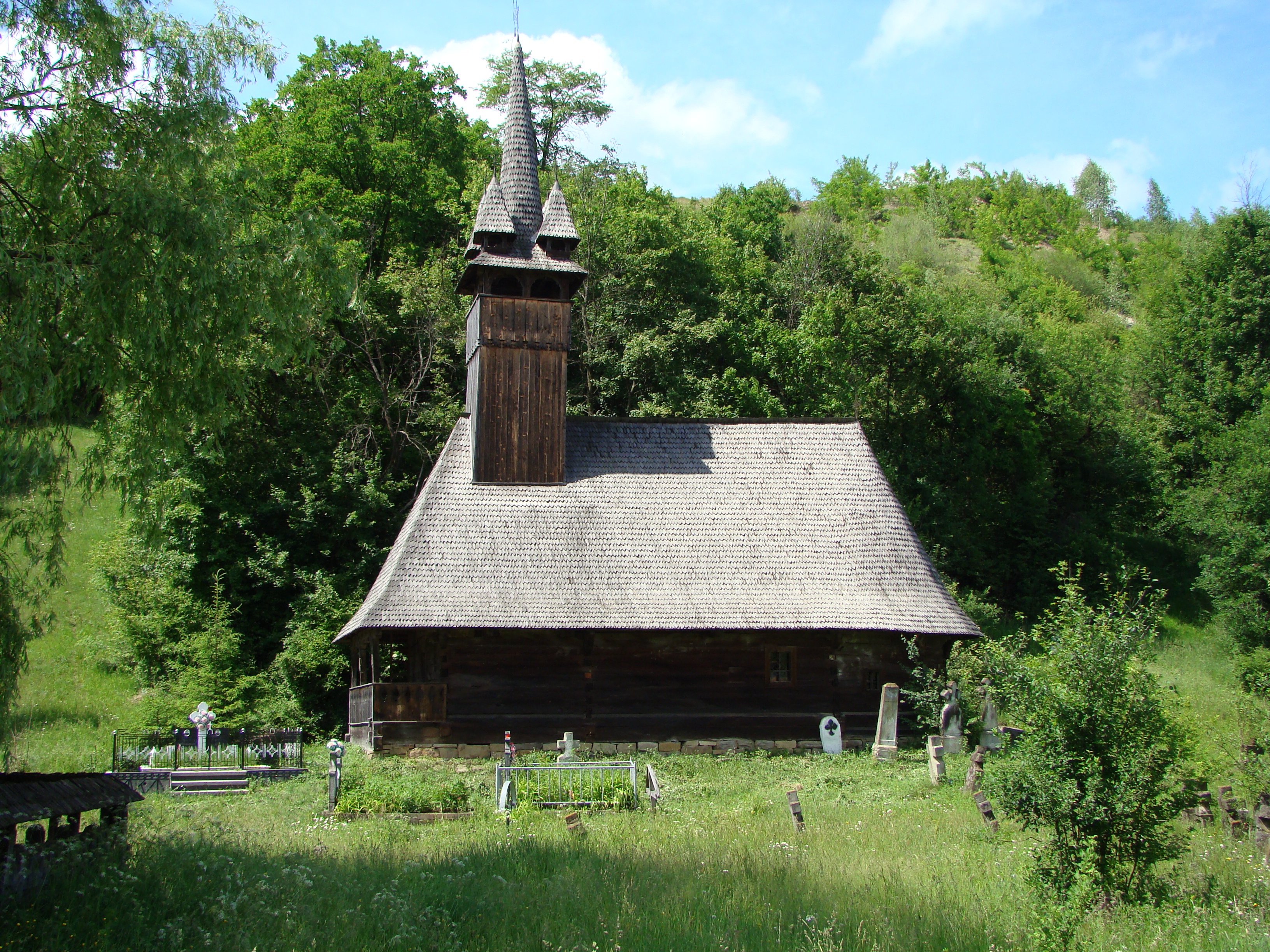 Wooden church in Glod (Gâlgău), Sălaj